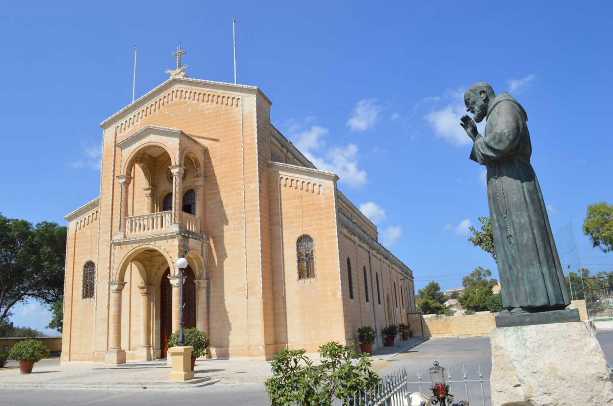 Church of the Capuchin Friars This media is about Maltese cultural property with inventory number 00624.